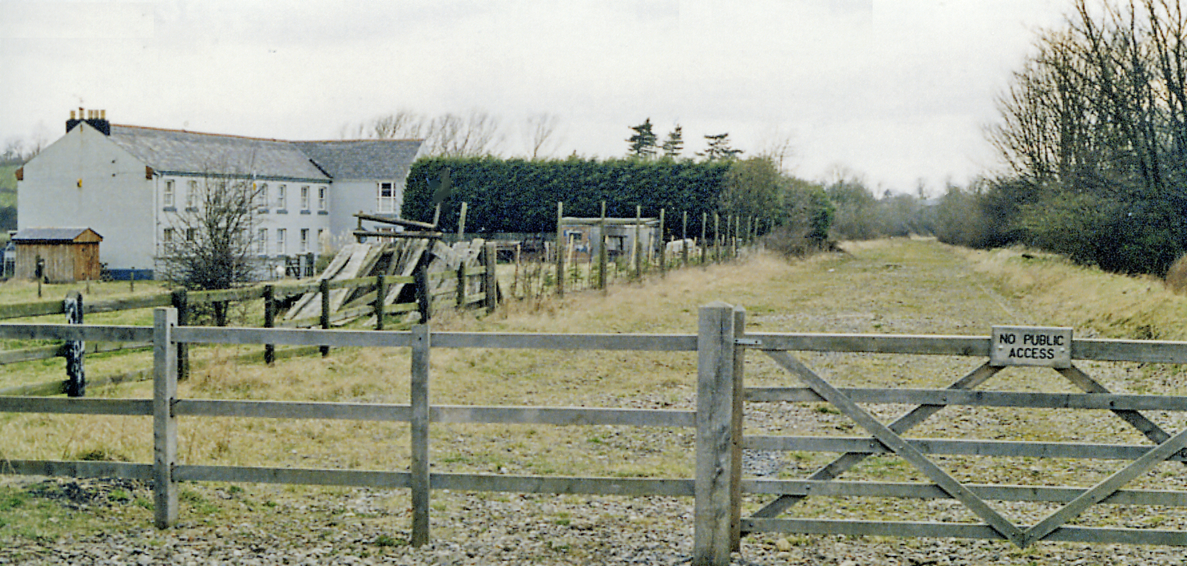 Site of Clipston & Oxendon station, 1989. View northward, towards Market Harborough: ex-LNWR Northampton - Market Harborough secondary main line. The station was closed on 4/1/60, when passenger services ceased on the line, but the line was important for freight, which continued until 31/5/80 and did not close completely until 15/8/81. The track-bed remained and the Northampton & Lamport Heritage Railway may well manage to reopen it northward from their present terminus.